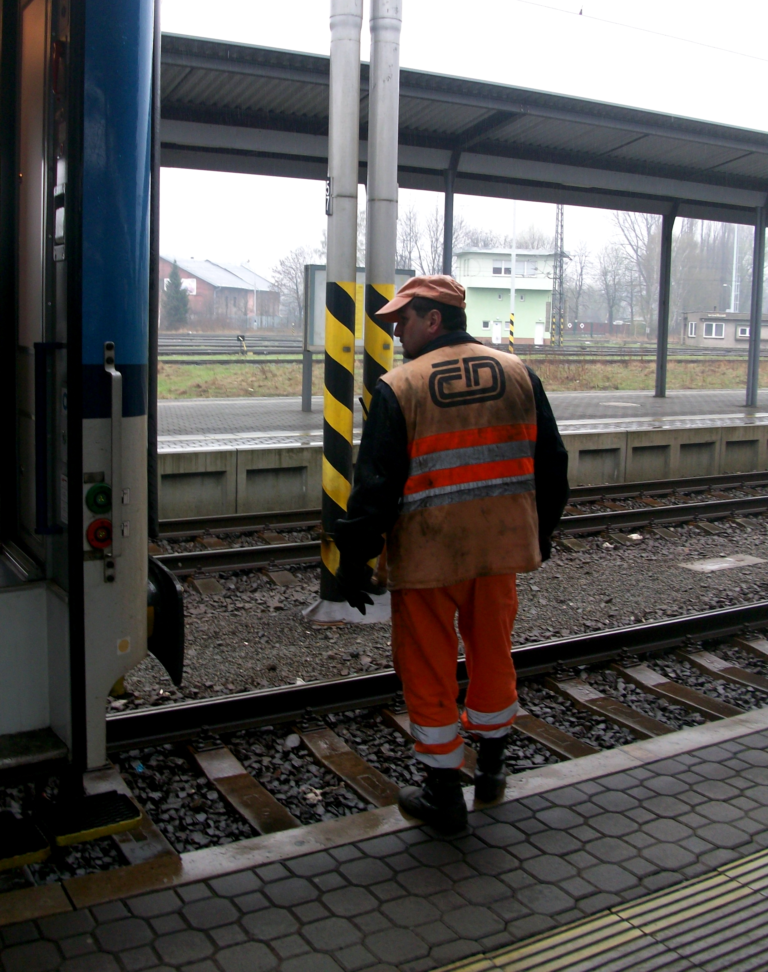 ČD's employee in Bohumín